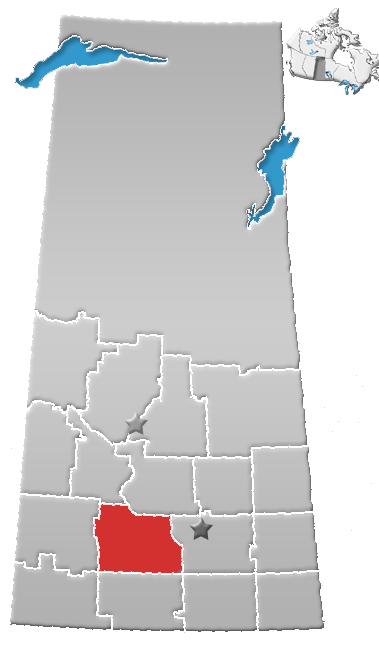 Saskatchewan census area No. 07